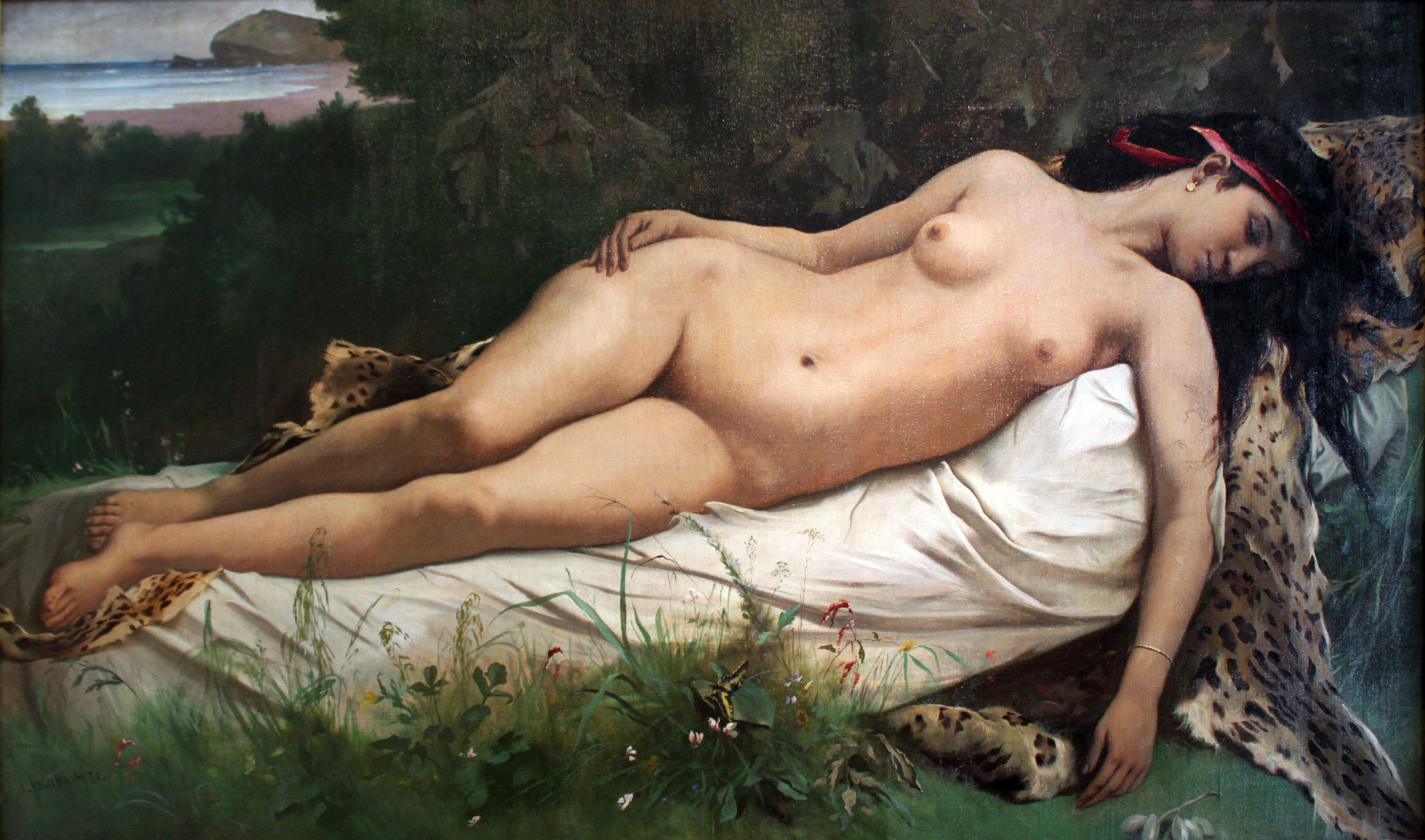 Feuerbach links to the composition of the type of "Sleeping Venus" by Giorgione - a personification of self-sufficient nature.